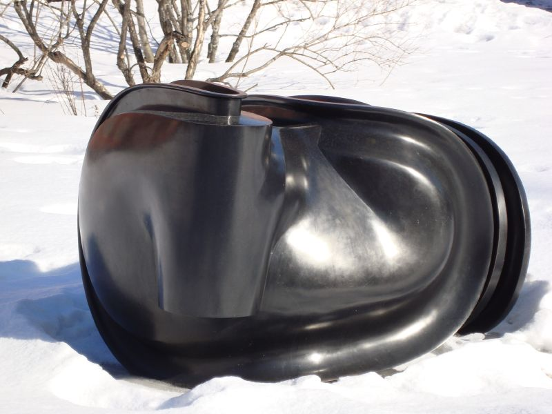 Umeå sculpture park/Sweden with Early Forms (1999) by Tony Cragg#